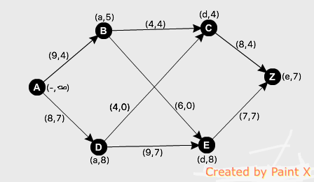 Slika 2.3